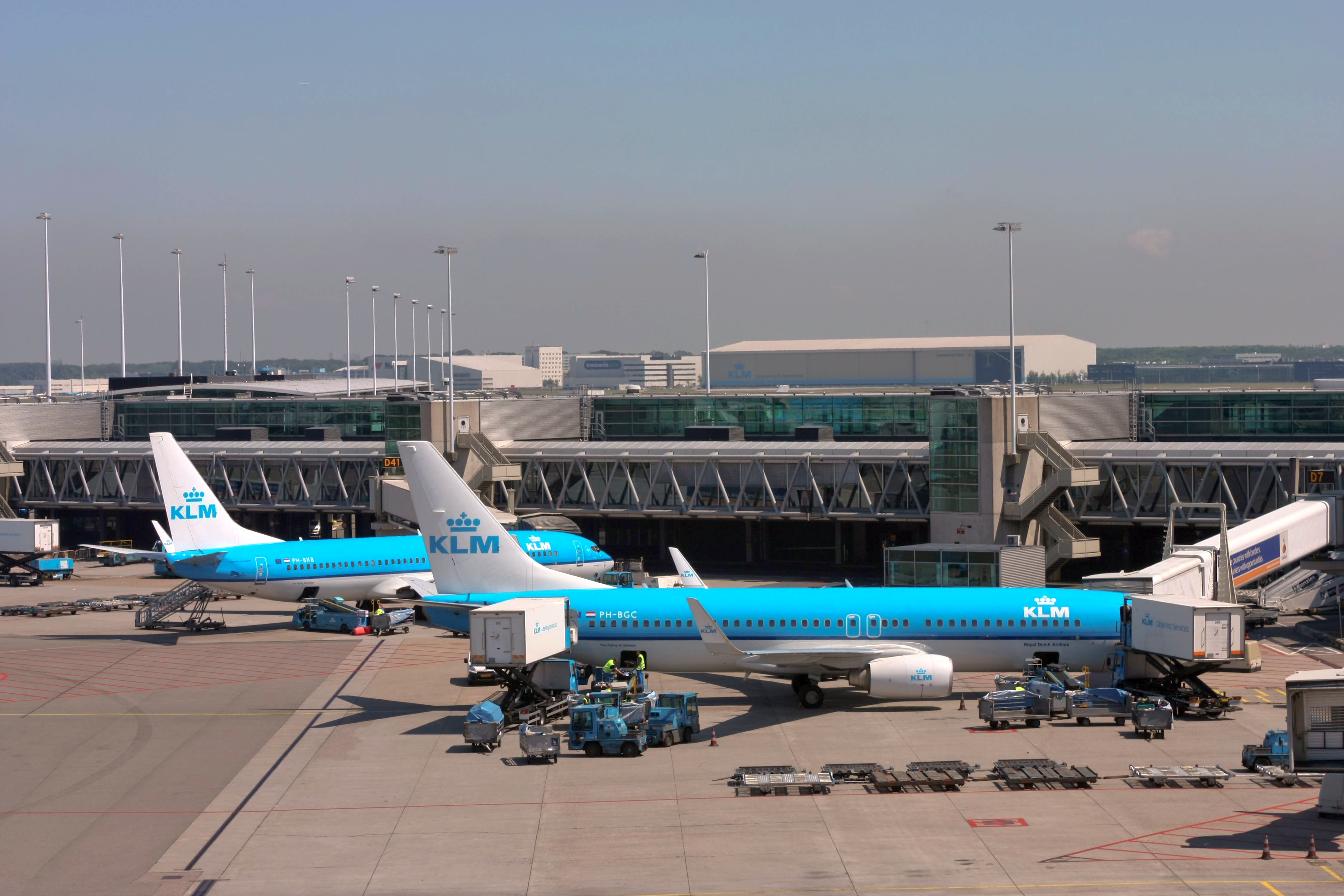 Schiphol Airport Pier D